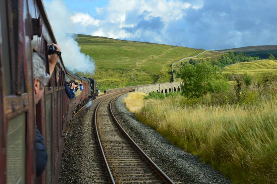 LMS Black 5's no's 45231 & 44932 racing south down the S&C from Dent heading towards Ribblehead and Hellifield where the 2 engines were to take on water.